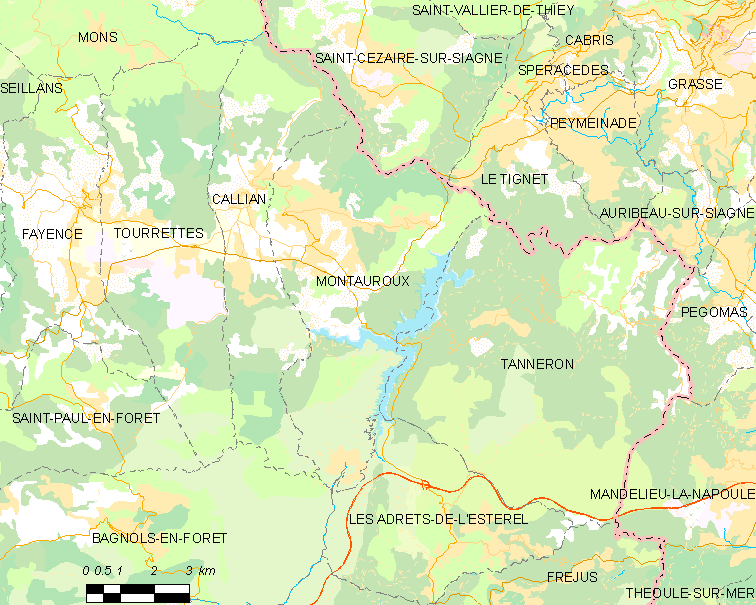 Map of French municipality Montauroux